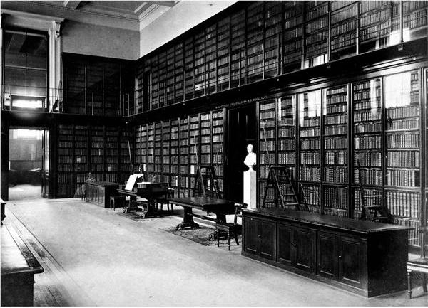 This photograph of 1875 shows the south side of the Grenville Library. The bust of Thomas Grenville by Sir David Dundas, also Museum Trustee, can be seen in the alcove. The books were originally on open shelves, which were glazed by 1857 when this room, the King's Library and Manuscript Saloon were opened to the public. (cropped image so the blank banners have been removed)